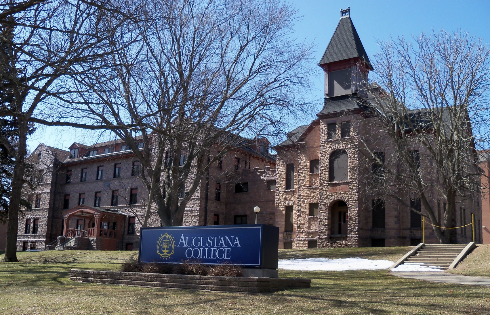 Old Main (right) and East Hall (left) on the campus of Augustana College in Sioux Falls, South Dakota, USA.